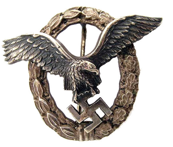 German Aviator Badge, 1935